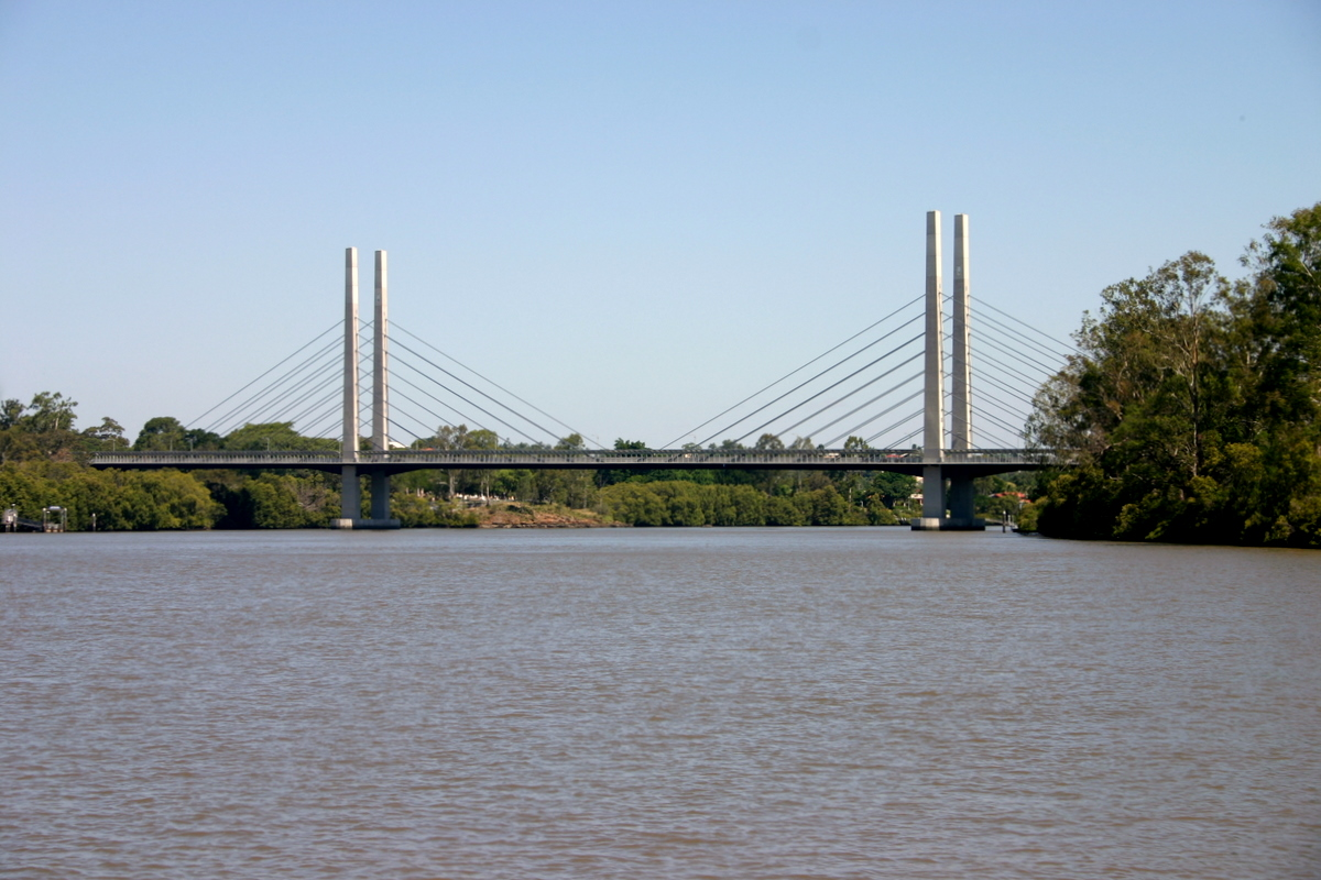 The completed Eleanor Schonell Bridge taken on, from the City Cat.